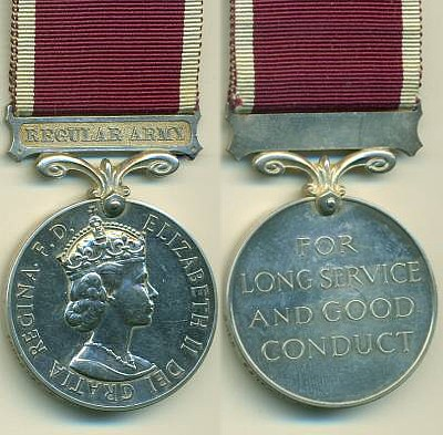 The second Queen Elizabeth II version of the Medal for Long Service and Good Conduct (Military)